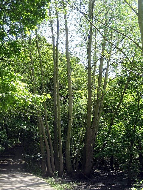 Crack Willow (Salix fragilis) Crack willow is so called because the twigs are brittle and snap with a crack. They can be found all around the margins of the lake in the Stanley Marsh nature reserve, and often have multiple trunks. I count twelve trunks between these two trees.